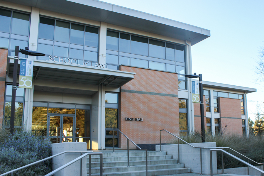 Exterior view of the Main Entrance to King Hall